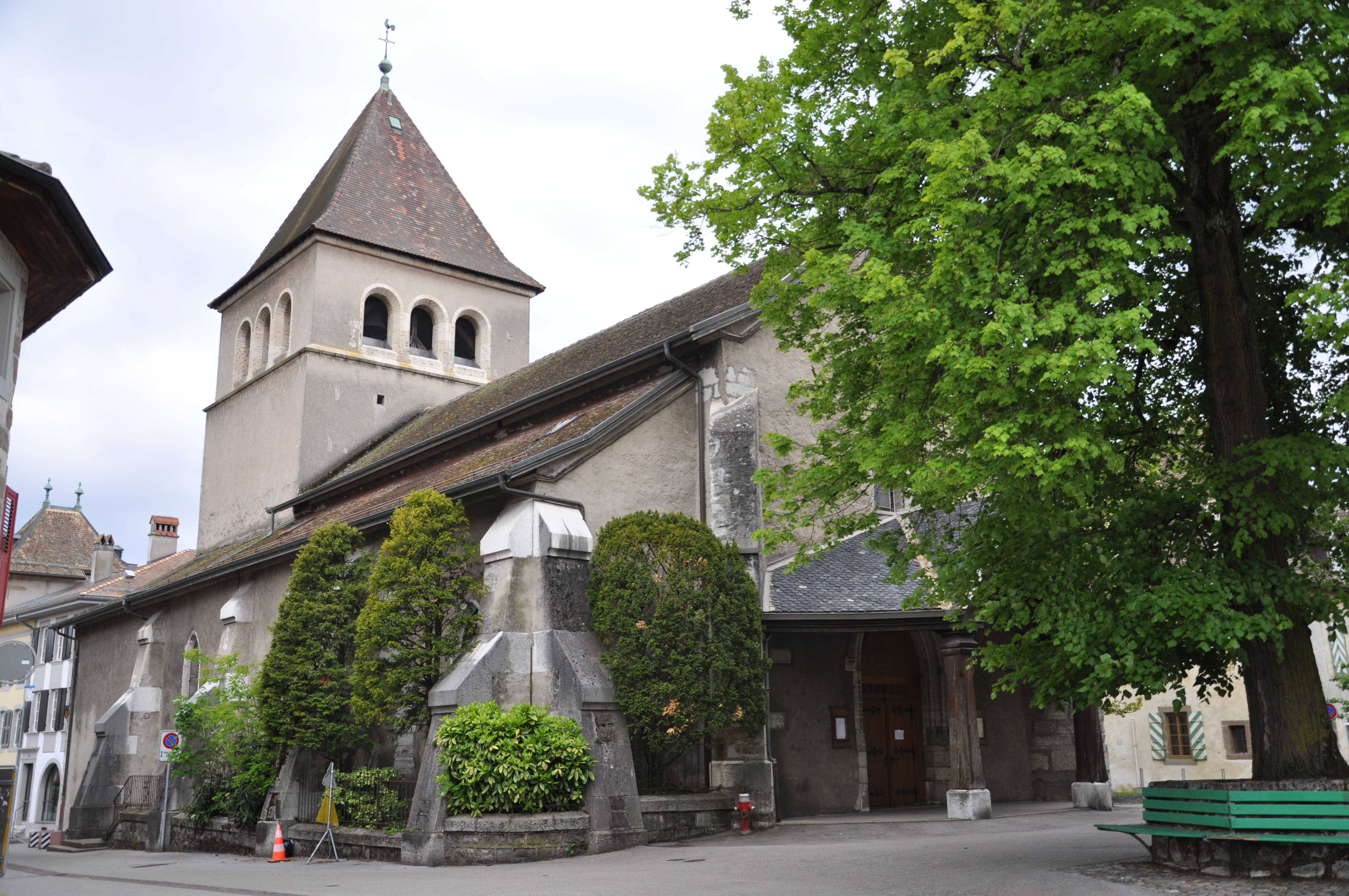 Reformed Church of Notre Dame in Nyon, Vaud, Switzerland